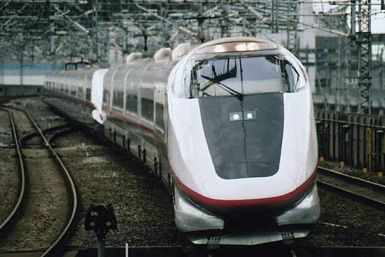 JR East E3 series shinkansen prototype set R1 approaching Omiya Station